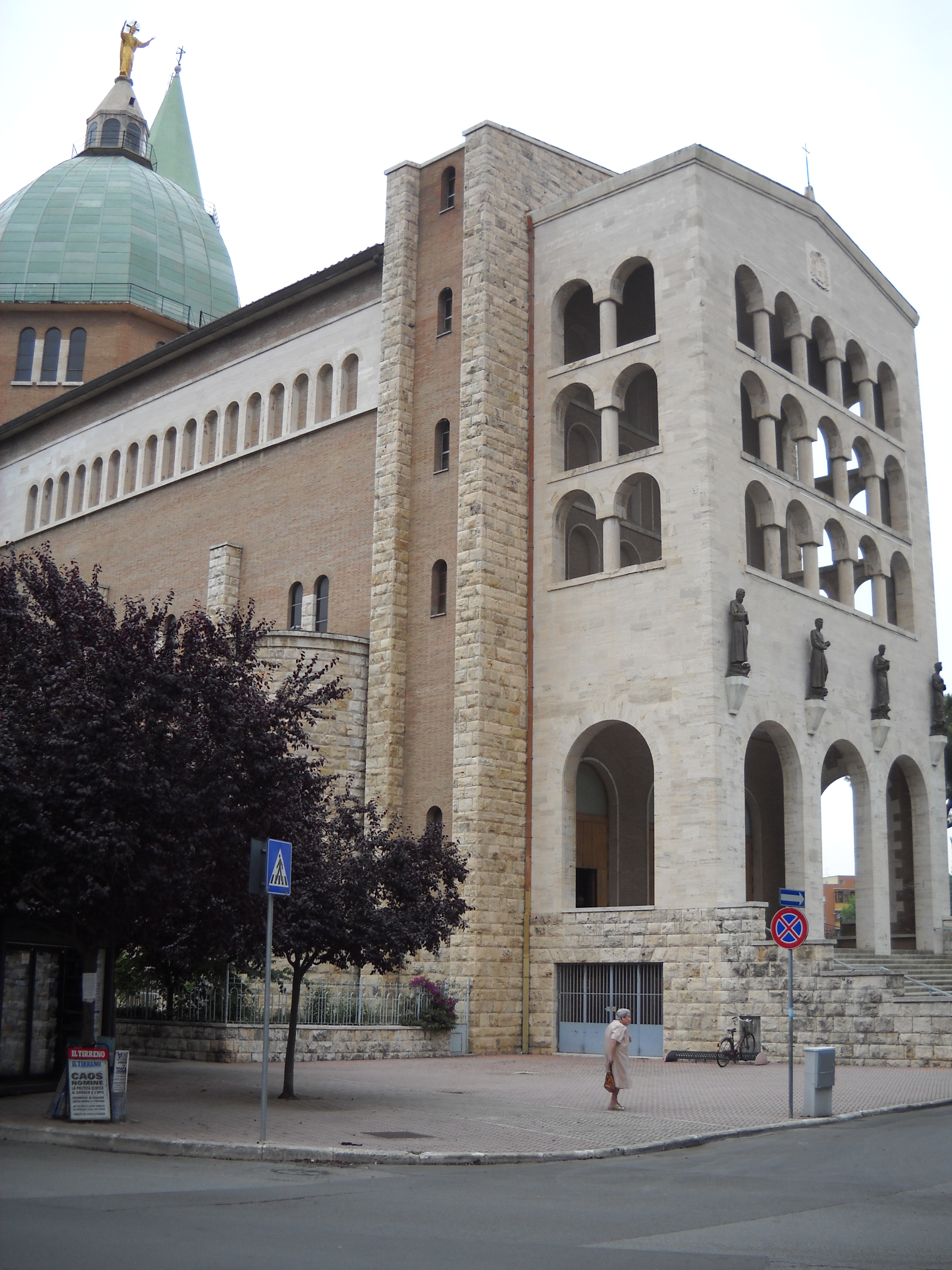 Ernesto Ganelli, basilica del Sacro Cuore di Gesù in Grosseto, Tuscany